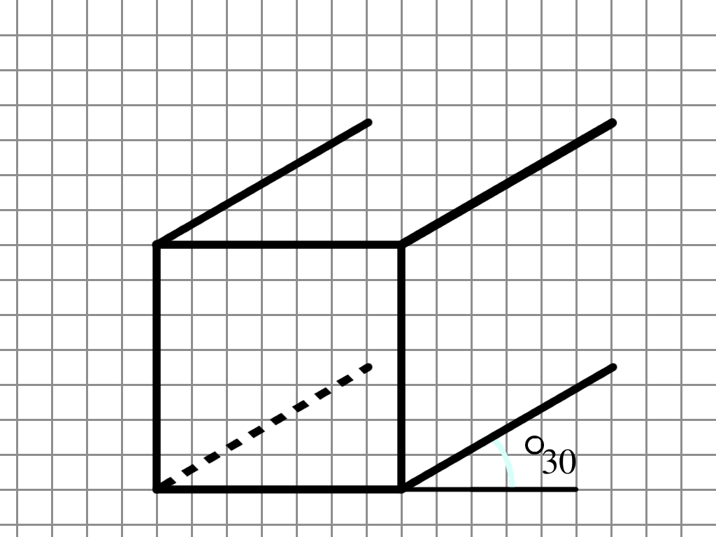 الخطوة الثانية من رسم المكعب :رسم البعد الثالث (الخطوط المتجهة داخل الصفحة)